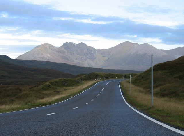 Destitution Road. The A832 between Gairloch & Ullapool was originally constructed by local crofters after the potato crops failed in 1846-47 in exchange for food, and was thus given the name "Destitution Road" The hill in the background is An Teallach, and a view of this road from that hill can be found at 241232